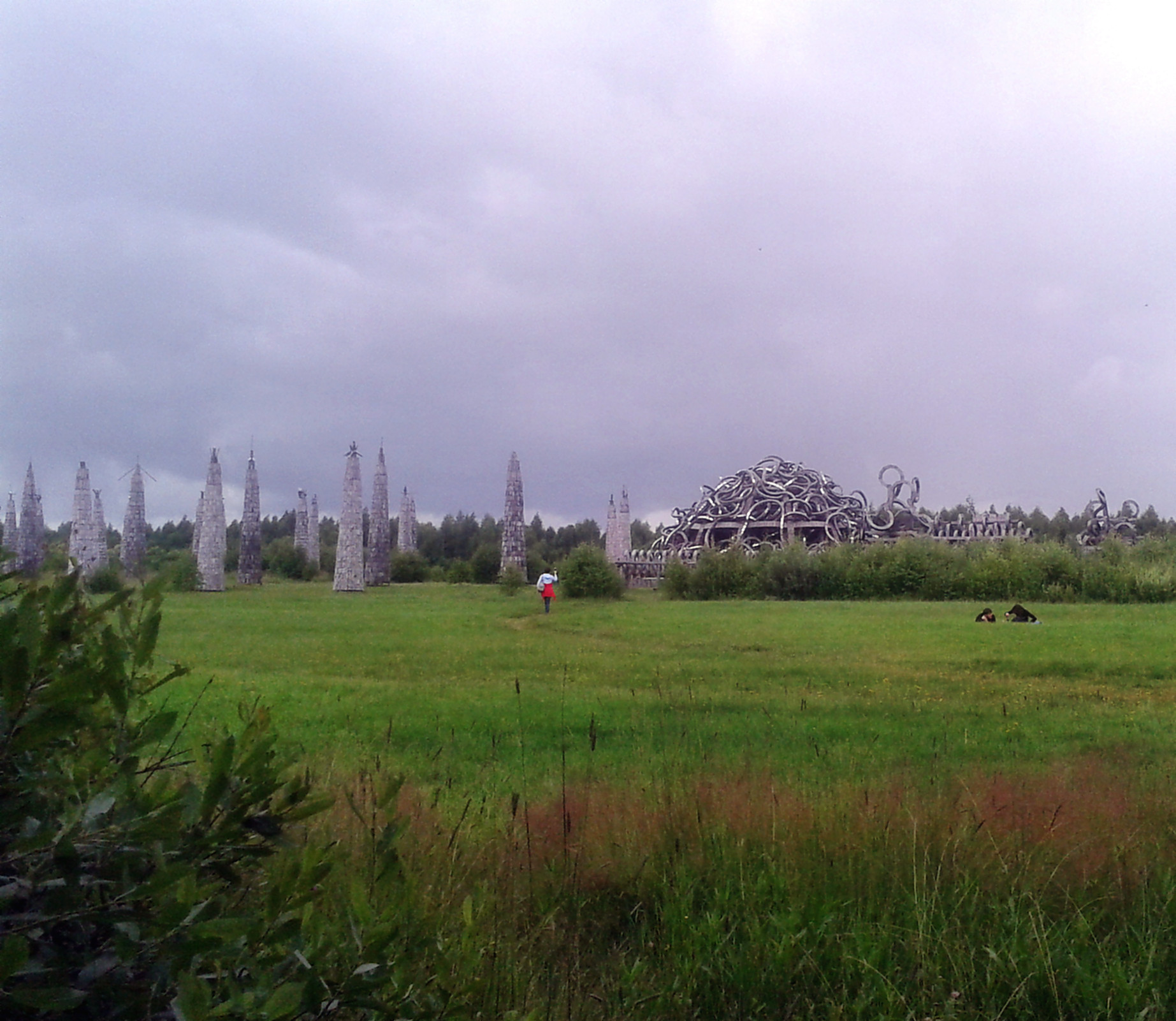 Nikola-Lenivets (art-park), view of the area